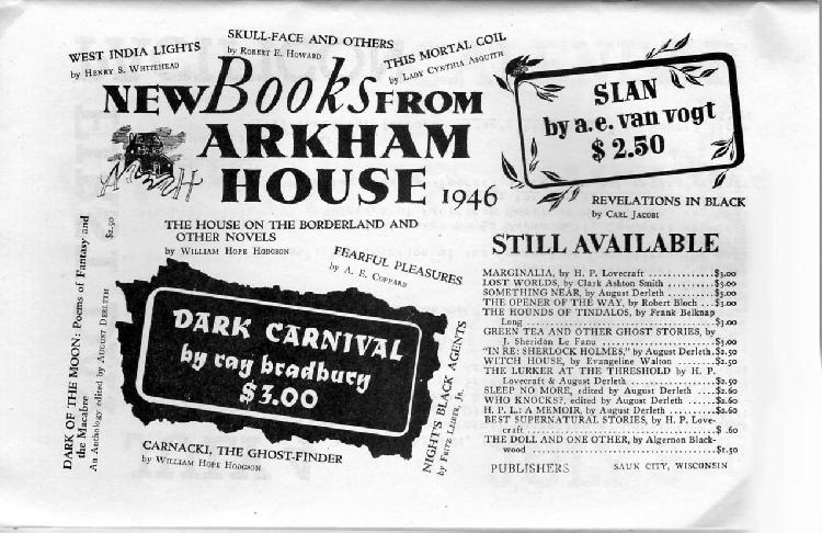 1946 Arkham House advertisement